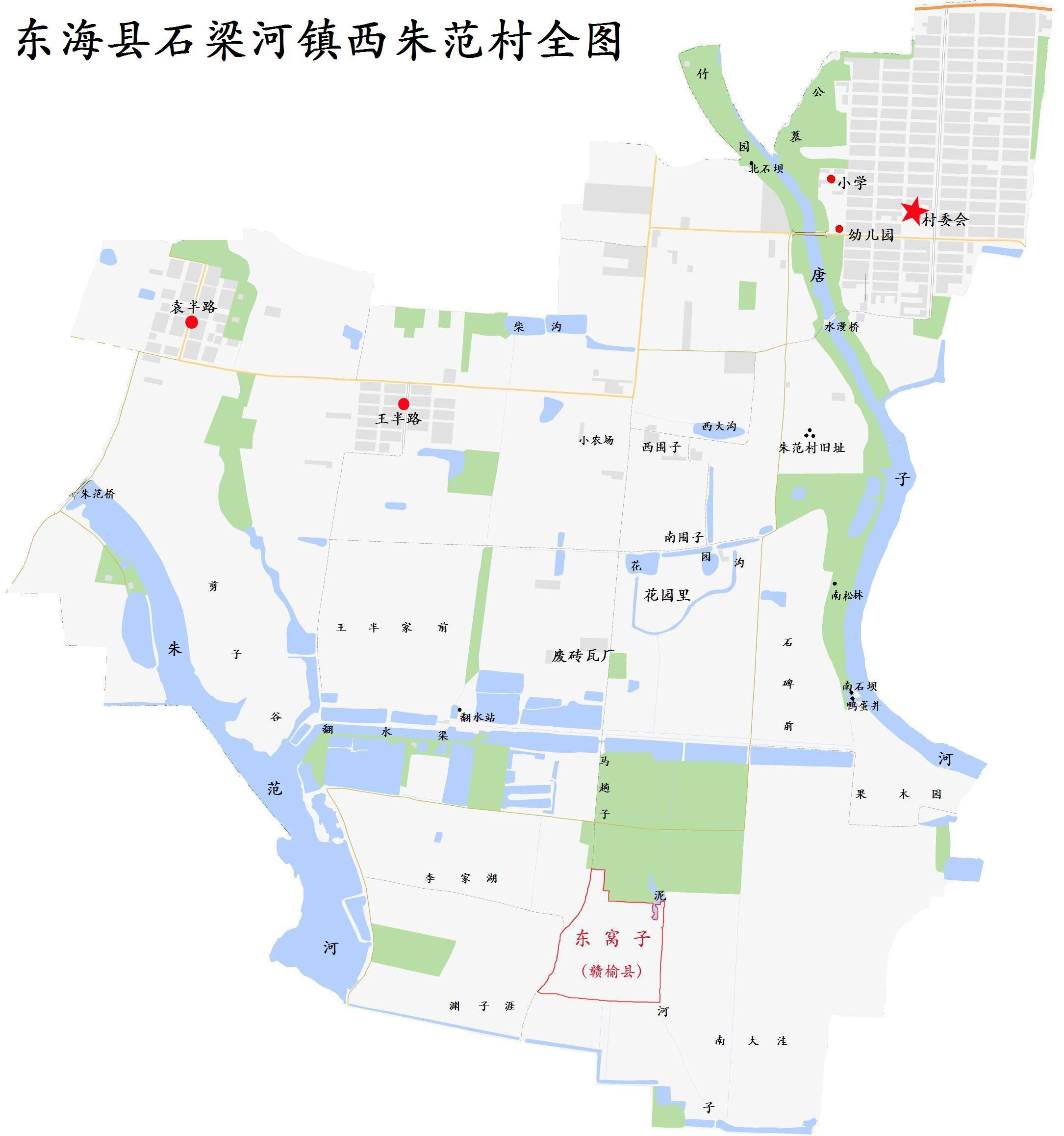 Map of Zhufan